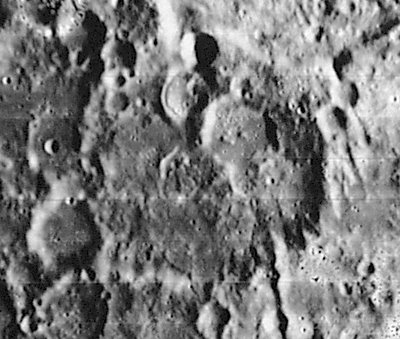 LOIV 101 H2 Parrot is the large irregular formation in the middle of this frame. The round half-shadowed crater at top center is Parrot R. The larger crater to its southeast, on the floor of Parrot, is Parrot D. The two equally large craters in the lower left corner are Parrot A (top) and Parrot E (bottom).